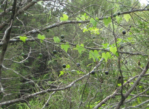 Melothria pendula, Guadeloupe cucumber or creeping cucumber found at the edge of a wooded area in Campbellsville, KY just below the Green River Lake Dam in early fall. Shows green and ripe fruit. The green fruits are edible but black fruits are not.